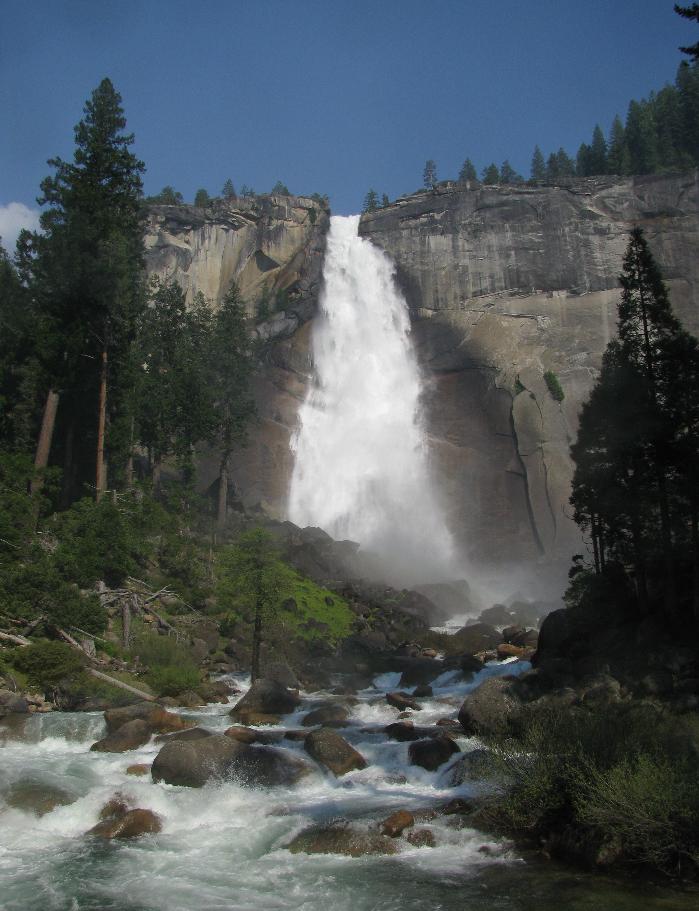 Nevada Fall and the Merced River Yosemite National Park, CA, USA Just below the trail to Vernal Fall